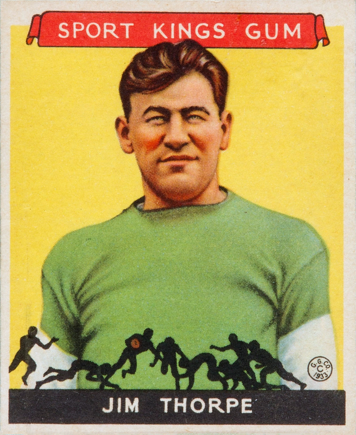 1933 Goudey Sport Kings football card of Jim Thorpe #6. PD-not-renewed.